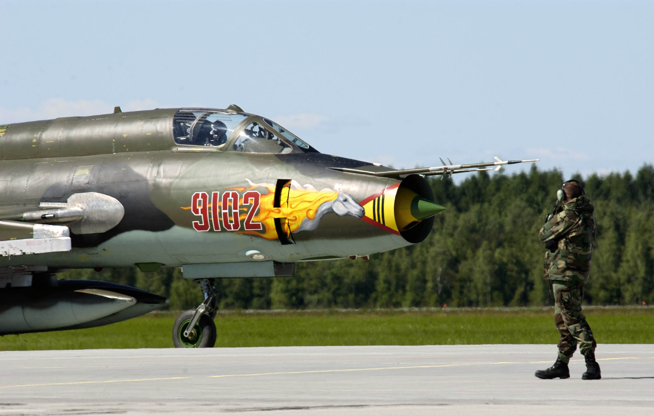 POZNAN, Poland -- An F-16 Fighting Falcon crew chief watches a Su-22 aircraft taxi here. Airmen from the Illinois Air National Guard's 183rd Fighter Wing are familiarizing Polish airmen with the F-16 during the U.S. European Command exercise Sentry White Falcon 2005 through June 17. In 2006, the Polish air force will start receiving their own F-16s that will begin replacing their Soviet-made MiG fighters as the country modernizes its military to NATO standards.